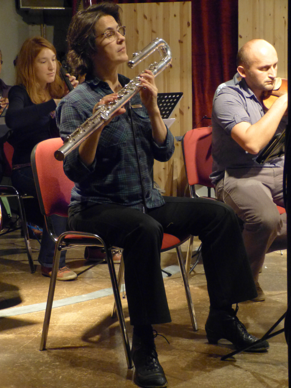 Angelika Sheridan within the concert of Multiple Joy(ce) Orchestra at Loft (Cologne), Germany, October 23rd, 2012